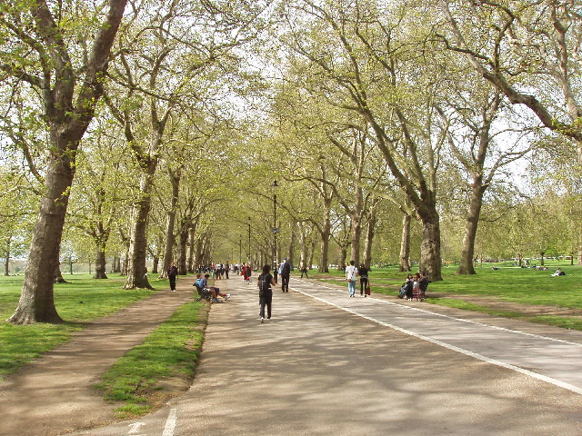 Broad Walk in Hyde Park, by Park Lane This is part of the Diana, Princess of Wales, Memorial Walk. Part of the surface has been marked as a cycle track, the rest is for pedestrians.